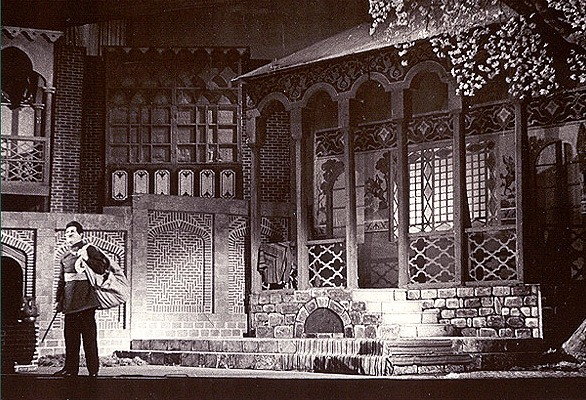 Bulbul as Asgar (Decade of Azerbaijani art in Moscow, 1938)